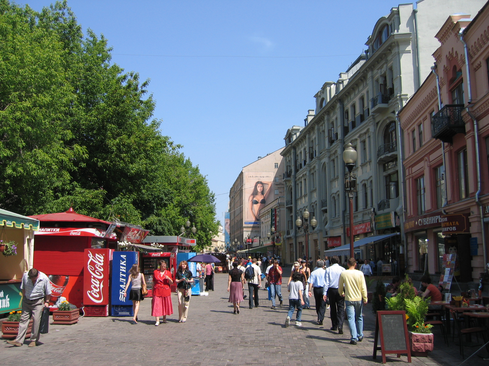 Arbat street in Moscow